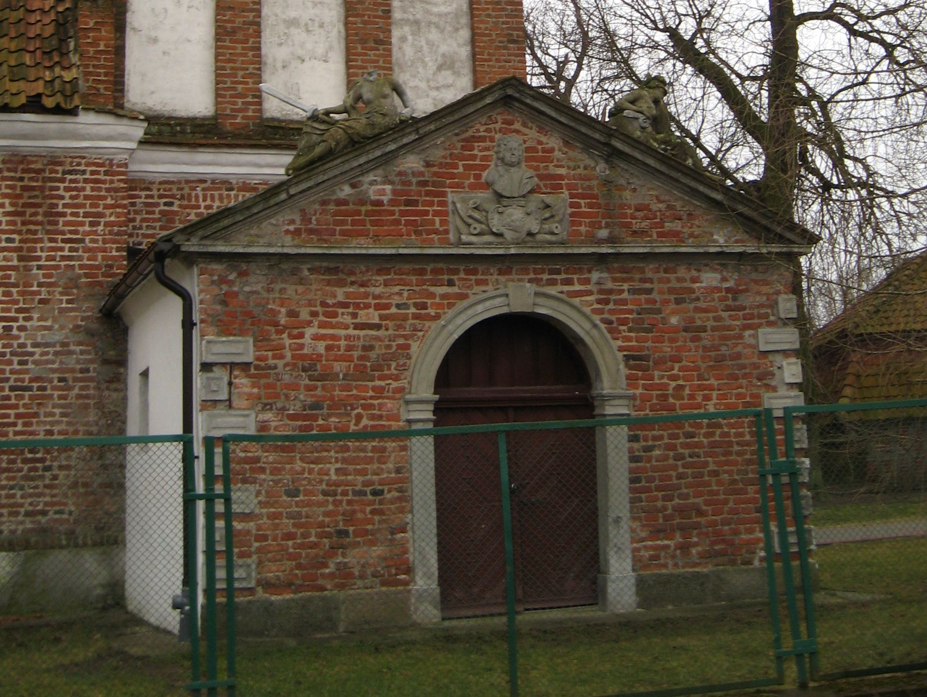 Church in the village Drogosze (Groß Wolfsdorf) in Poland - OpenStreetMap (Info)